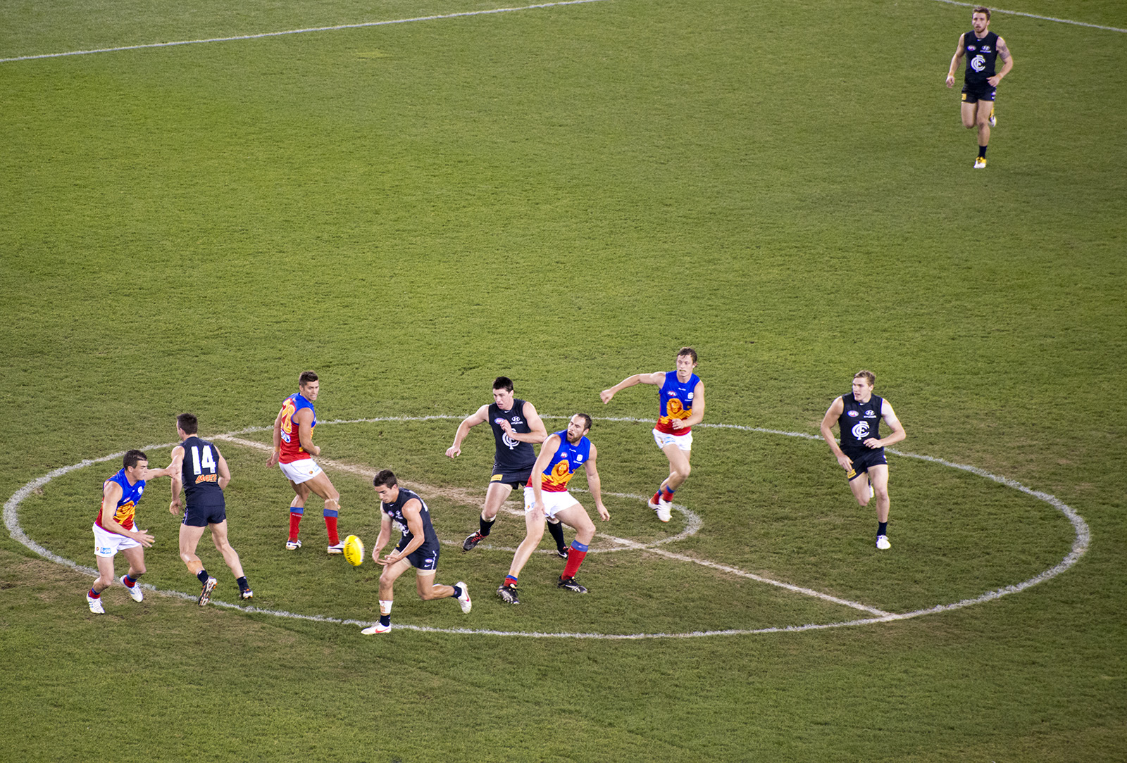 Andy Through the Pack